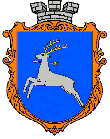 Old Sambir COA, Lviv Oblast, Ukraine